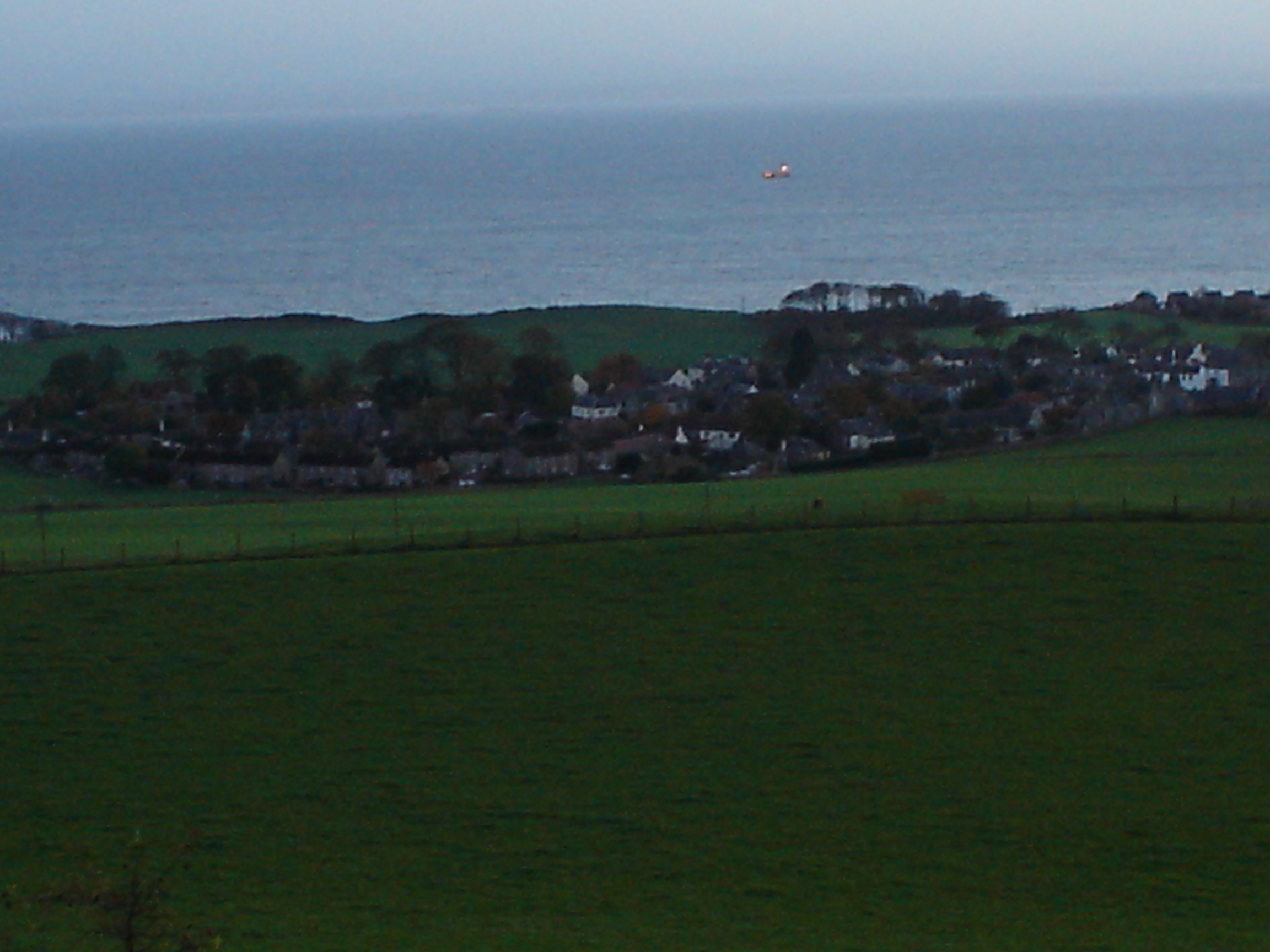 Upper Largo